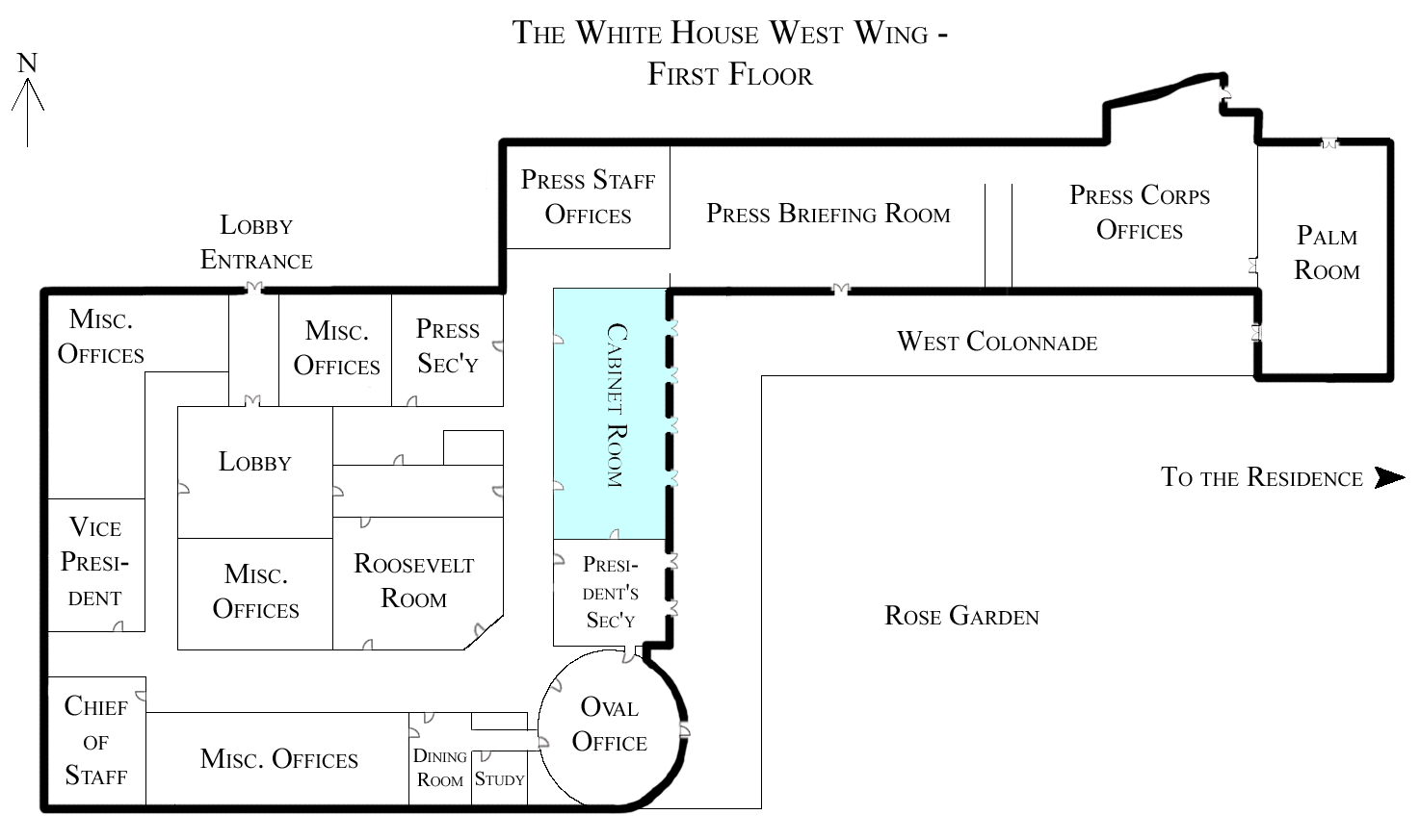 A floorplan of the first floor of the West Wing of the White House with the Cabinet Room in blue. Note that, depending on the administration, some positions (V.P., Chief of Staff, etc.) may be located in different offices than are shown here. Image is not to scale.